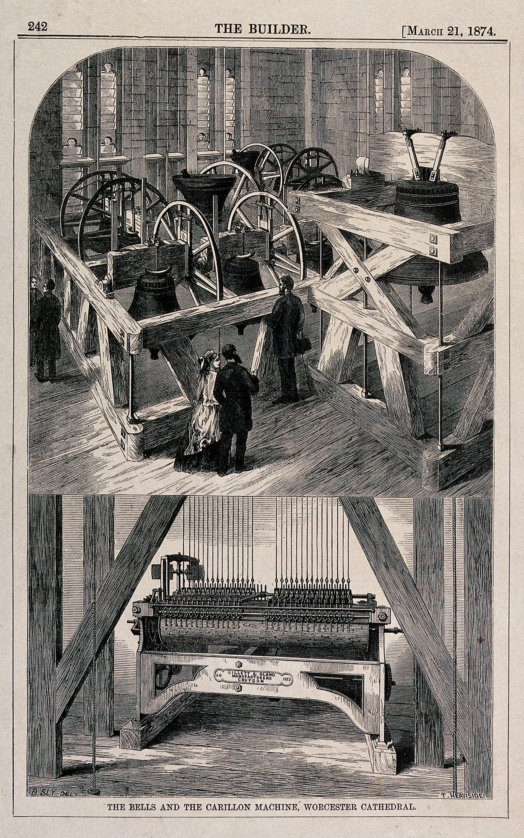 People walking around inside a belfry, looking at the bells and striking mechanism. Wood engraving by T. Heaviside after B. Sly. Iconographic Collections Keywords: Thomas Heaviside; Benjamin Sly